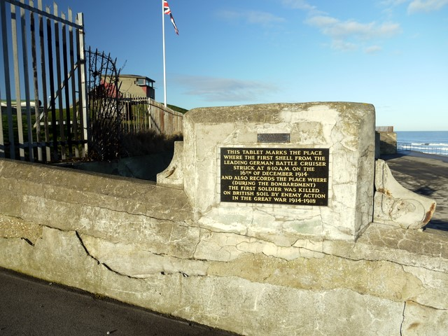 Plaque (listed on the site of origin as 'near the Heugh Battery' and described within the minutes of Hartlepool Borough Council dated 7 December 1921 as 'War Memorial Tablet') marking location where first German navy shell landed during its attack on Hartelepool and where the first British soldier was killed on the British mainland during World War I, on 16 December 1914.